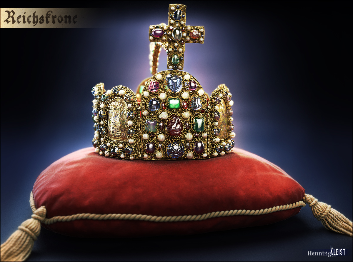 3D Visualization of the medieval German imperial crown